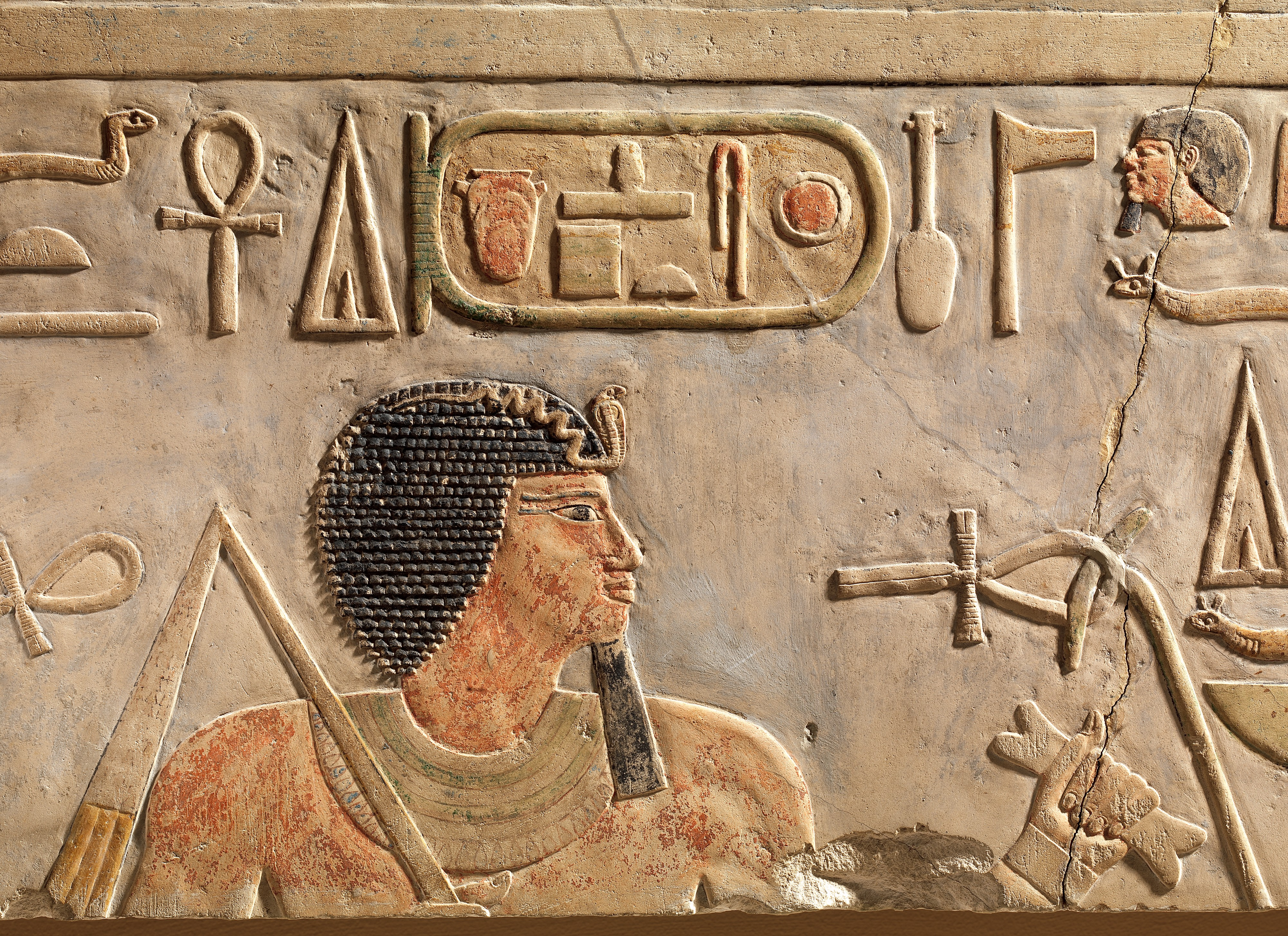 Relief, lintel, Amenemhat I